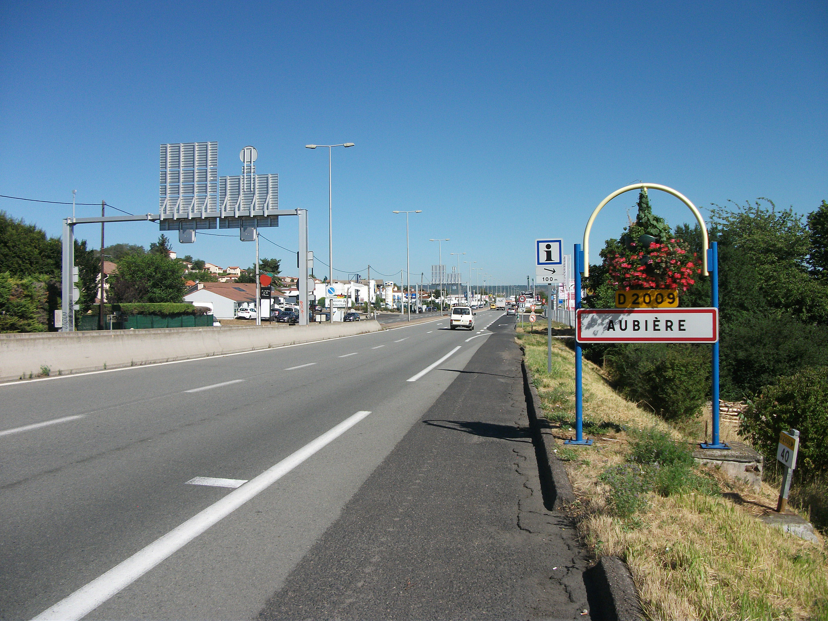 [8427] South entrance of Aubière by departmental road 2009 (Puy-de-Dôme, Auvergne, France). PR 40